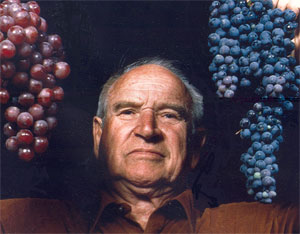 Photo of Harold Olmo